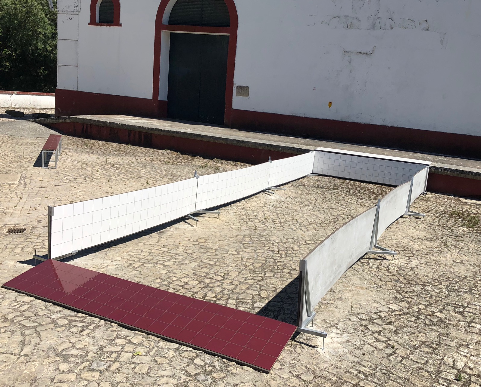 View of "Untitled [A a Bottomless Tank]" (2018) by Ramiro Guerreiro, at Winegros (former Cooperative of Olhalvo), Quinta da Baia, Olhalvo as part of the group exhibition 10.10.10 Art among Cities curated by Gabriela Raposo.